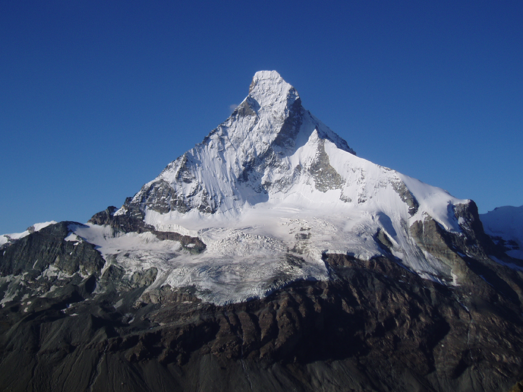 Matterhorn - North face